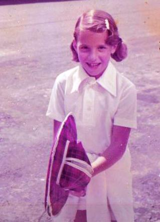 Israeli Tennis player Ilana Berger (age 7) in Mexico City, 1972